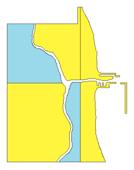 Results of the 1842 Chicago mayoral election by ward.